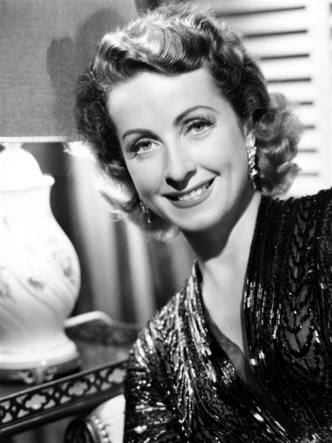 Publicity photo of Danielle Darrieux for 5 Fingers.